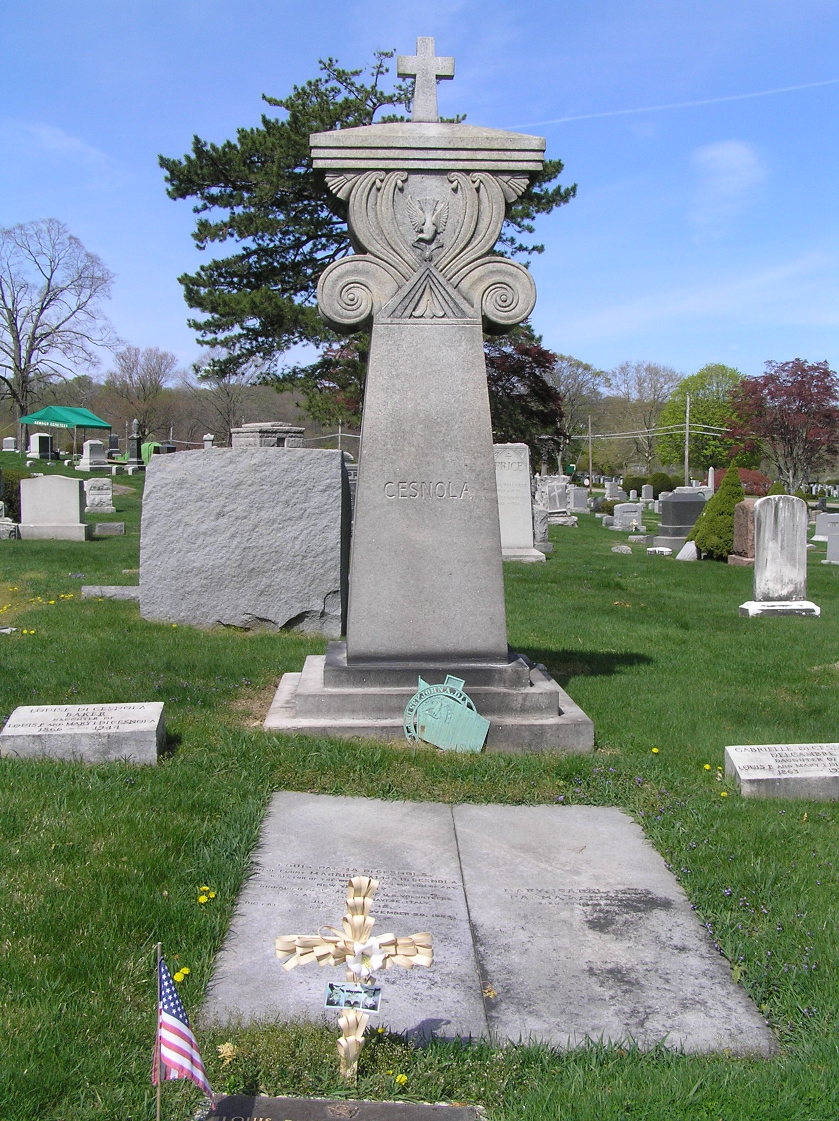 The monument of Louis Palma Di Cesnola in Kensico Cemetery